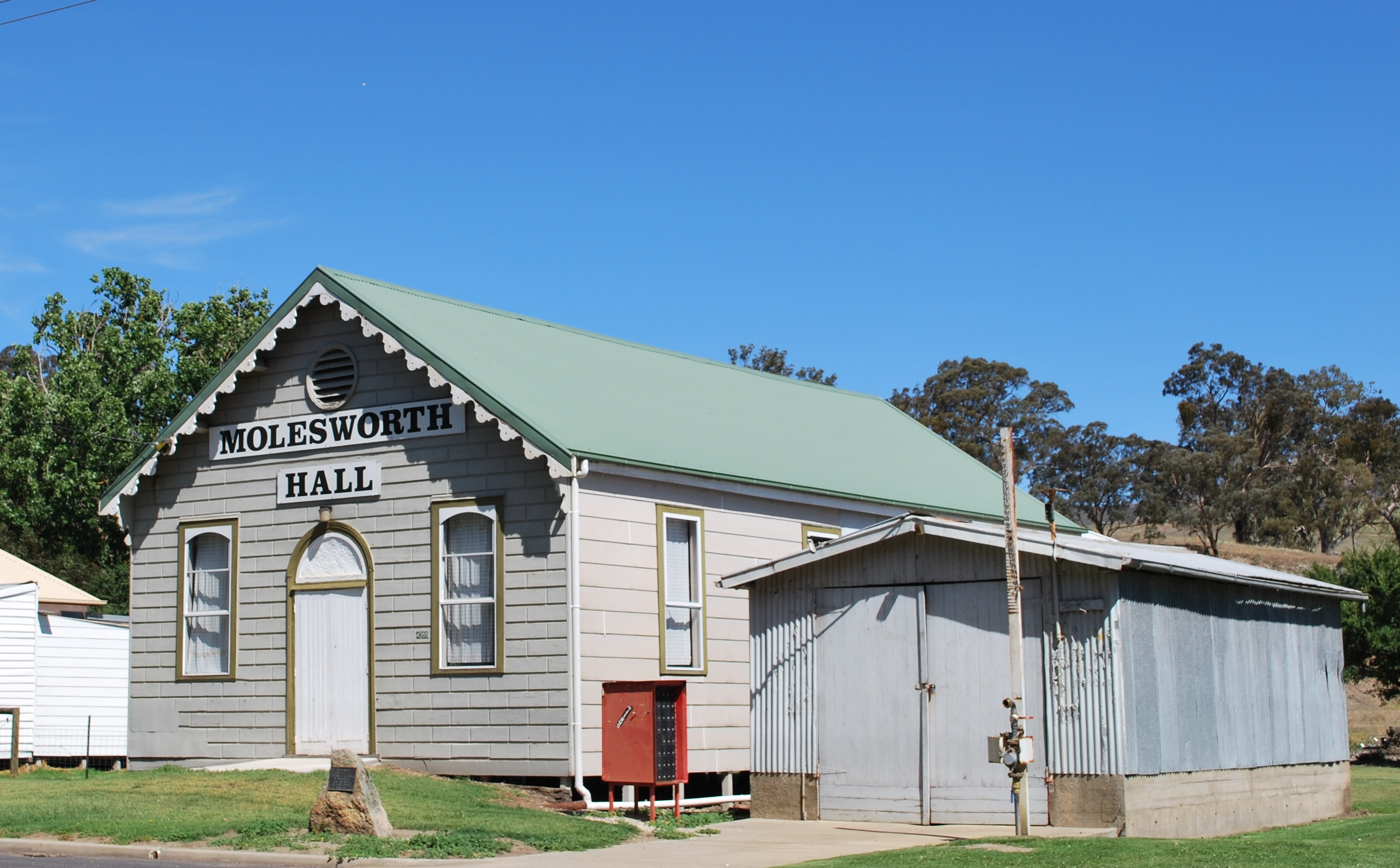 Public hall at Molesworth, Victoria